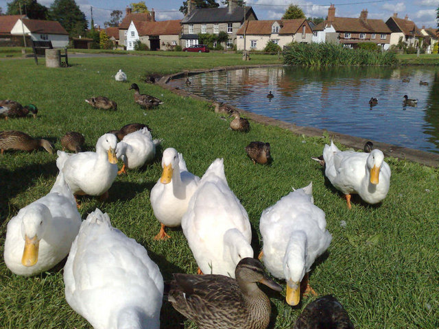 Haddenham Duck Pond I'm not an expert, but I think they're Aylesbury ducks.